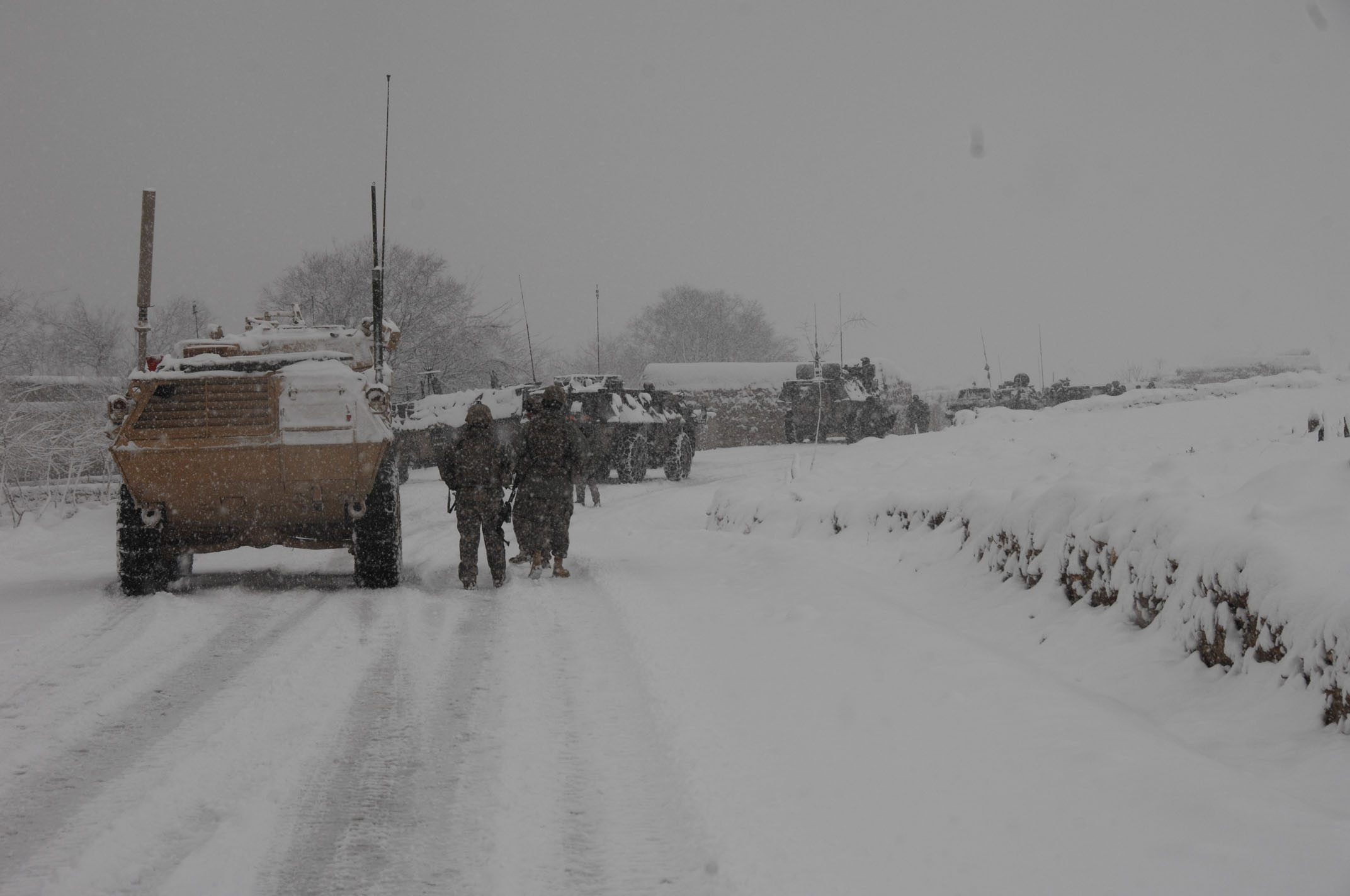 U.S. Army Soldiers from Bravo Company, Special Troops Battalion, Task Force Gladius, Forward Operating Base Morales Frasier, along with French and Afghan army soldiers set up their security positions during a key leader engagement in Jalokheyl village located on the main supply route Vermont, Tagab District, Kapisa Province, Afghanistan, Feb. 5, 2008. (U.S. Army photo by Sgt. Johnny R. Aragon)